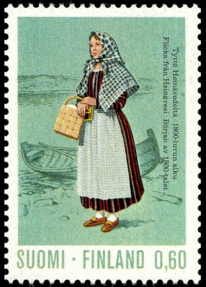 Postage stamp depicting a traditional dress of the 1800s in Heinävesi